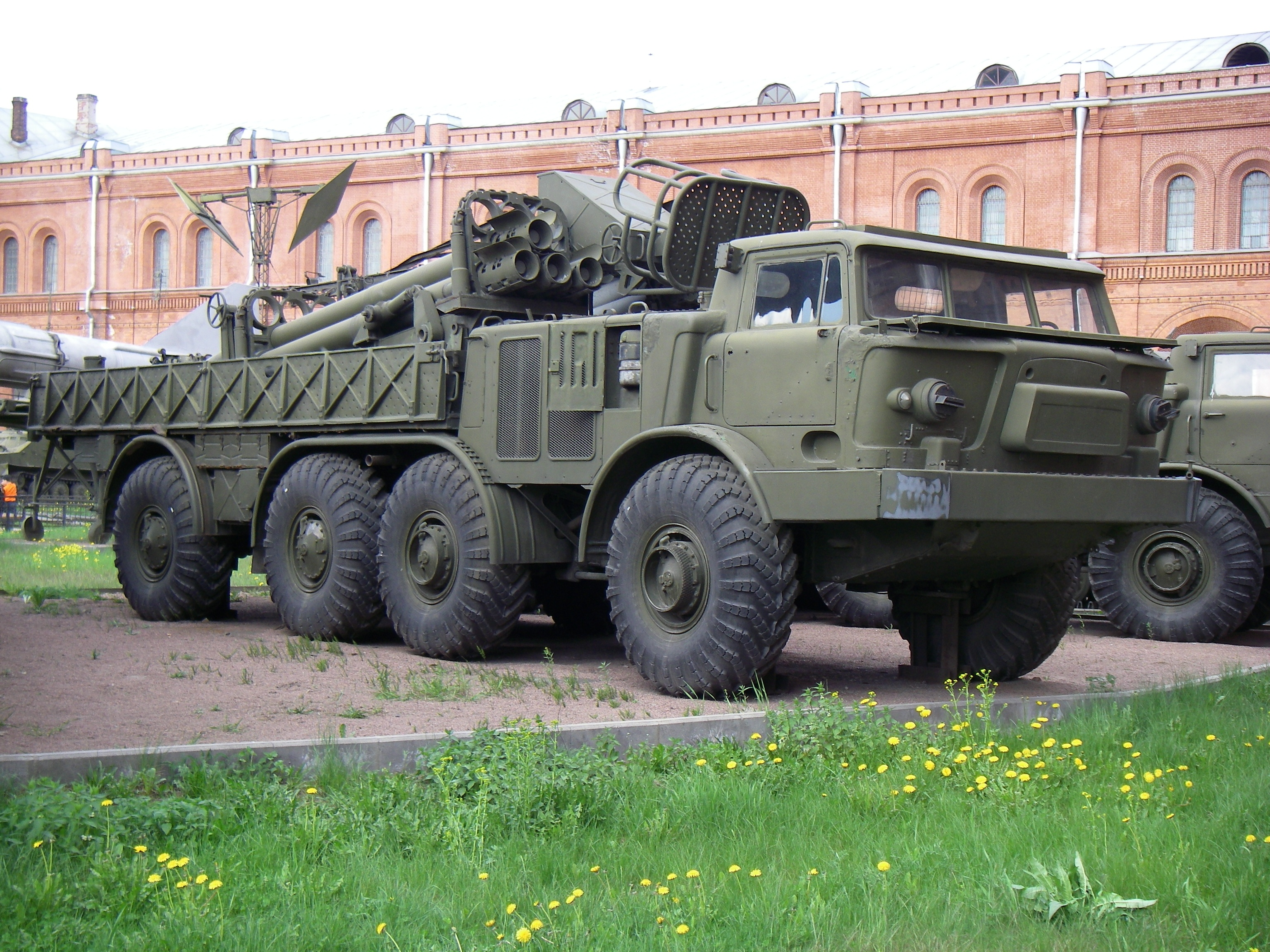 Transporter-loader 9T452 of 220-mm multiple rocket launching system 9K57 «Uragan» in Saint Petersburg Artillery museum